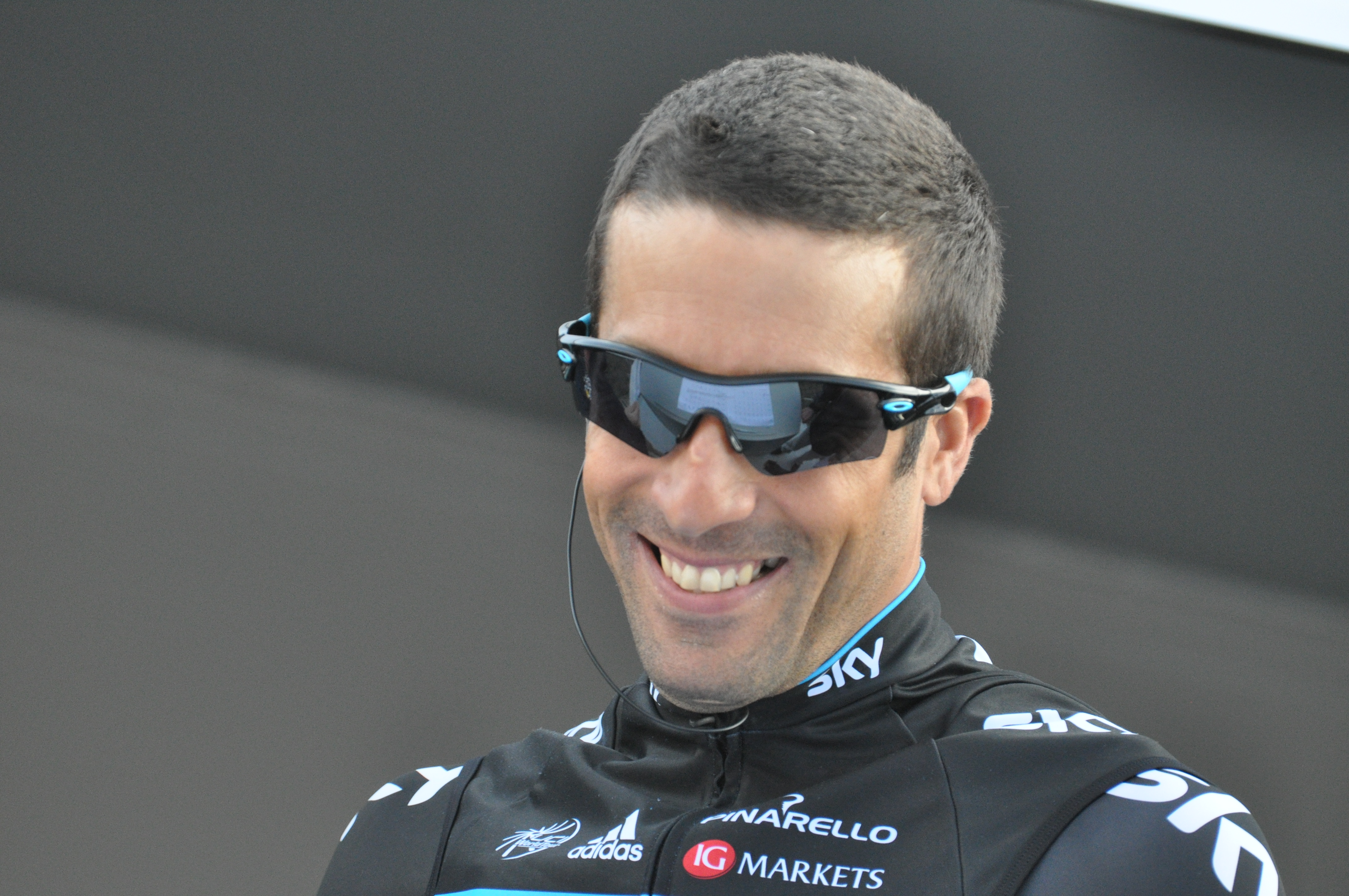 Juan Antonio Flecha in 2012